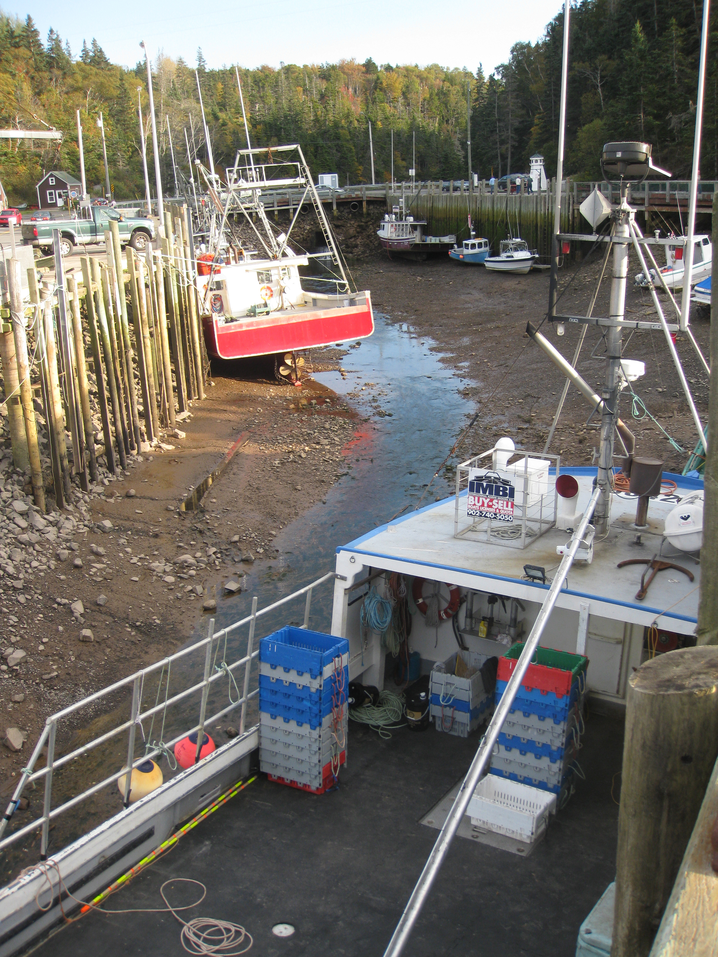 View of the harbour in Hall's Harbour. Boat: Tide Force, Yarmouth, N.S. (with the red hull)